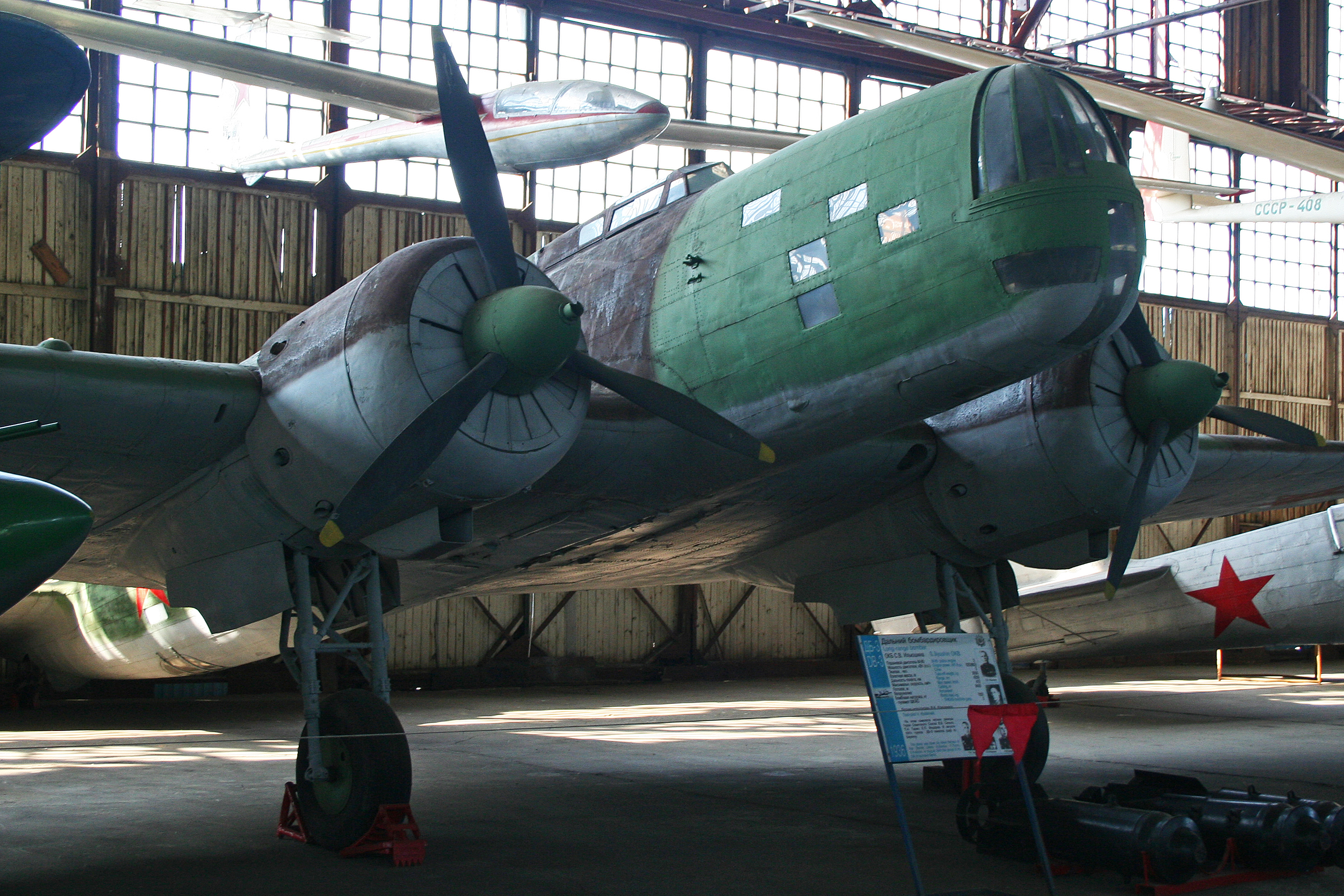 This is the sole survivor of the 1,500 DB-3 bombers produced. It was found in Taiga forests, 120 km from Komsomolsk-on-Amur. It was recovered in September 1988 from the Taiga forests, and brought to the Irkutsk Aircraft Industrial Association (IAIA) factory on board an IL-76. After restoration, the aircraft was delivered to Monino on board an An-22. It was handed over to the museum in December 1988. Originally displayed outside, it is now displayed in the original display hangar. c/n 891311. Russian Air Force Museum. Monino, Russia. 13-8-2012